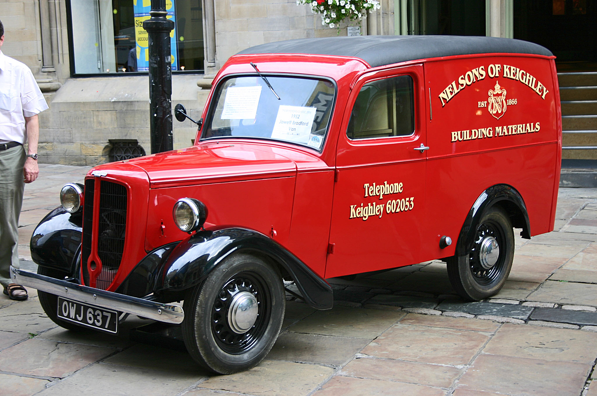 Jowett Bradford Van photographed in the city centre of Bradford in 1906, the centenary year of Jowett Cars. The Bradford Van had an engine which dated back to 1906.